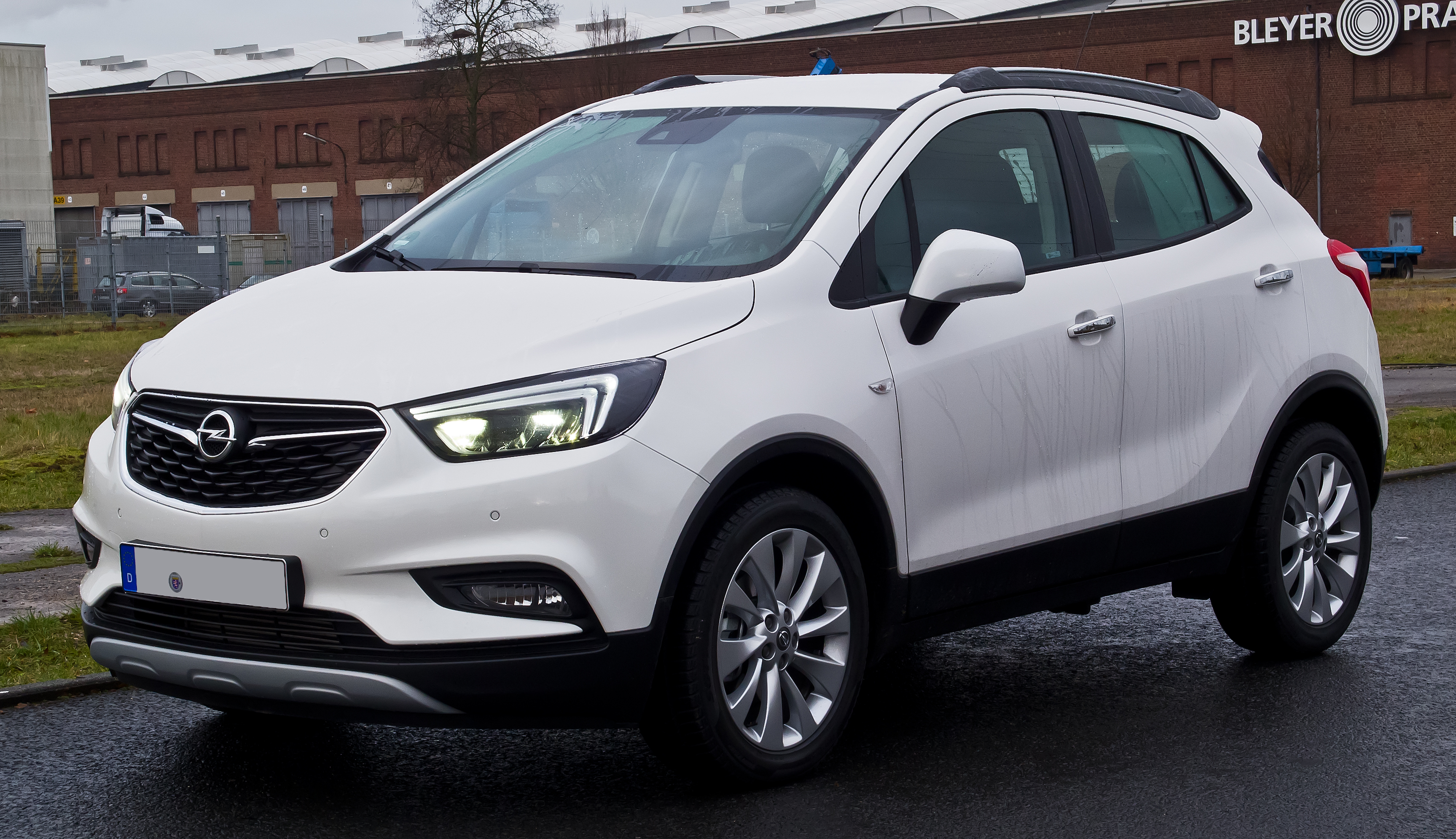 Opel Mokka X 1.6 CDTI ecoFLEX 4x4 Edition (Facelift)